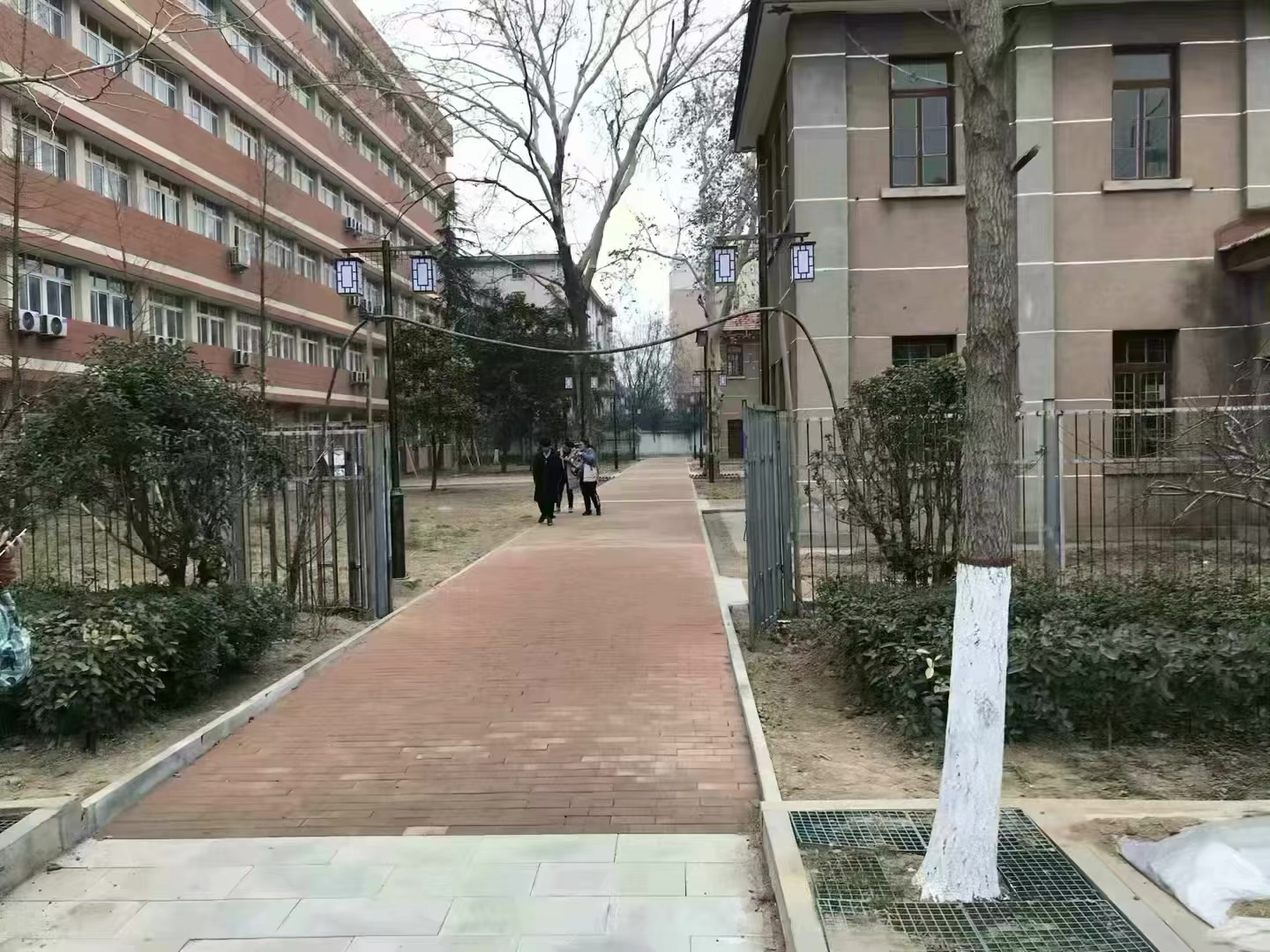 原许昌学院文科楼遗址（北校区）